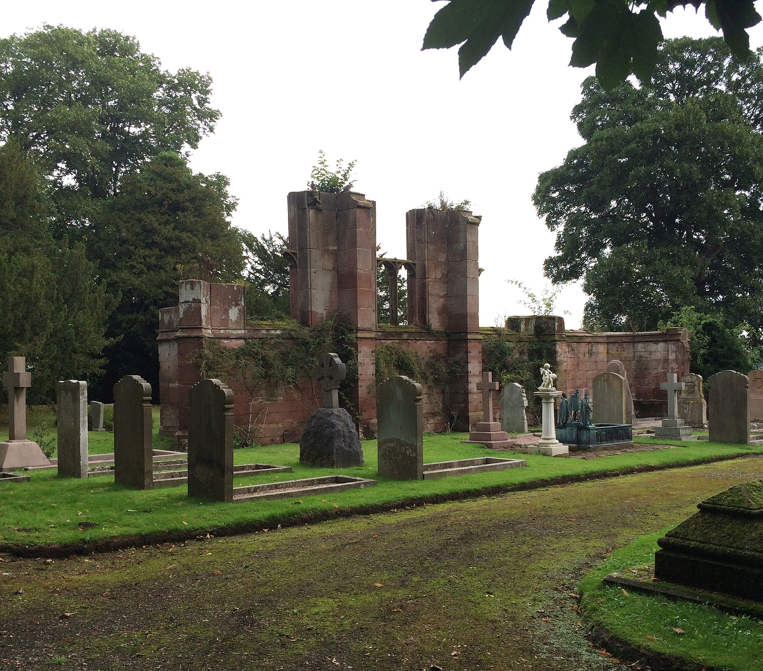 St Mary's Church Eccleston, Old Churchyard - View of what remains of the old parish church and the Grosvenor family graves